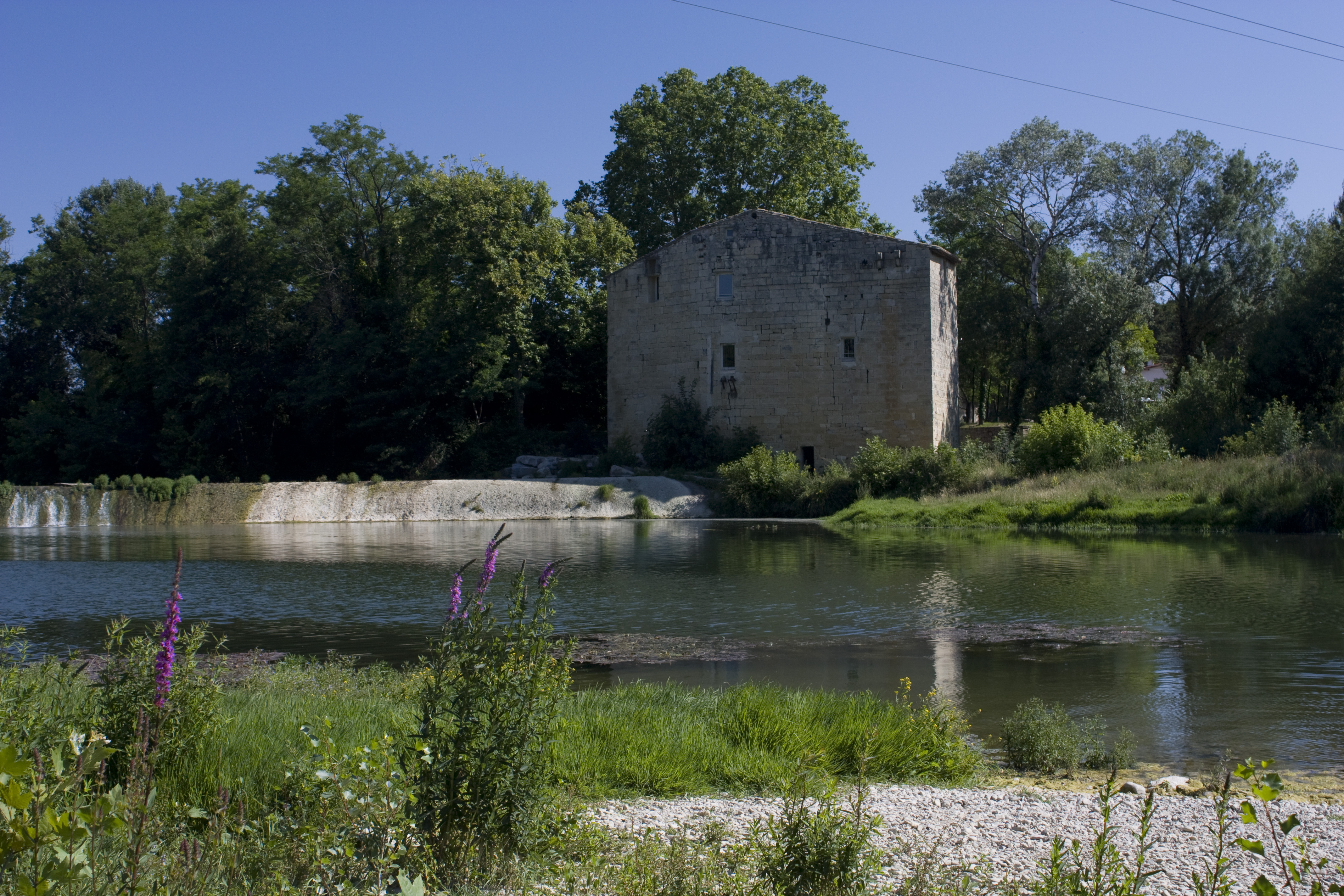 Carrière's fortified water mill, View from the right bank of the Vidourle river.